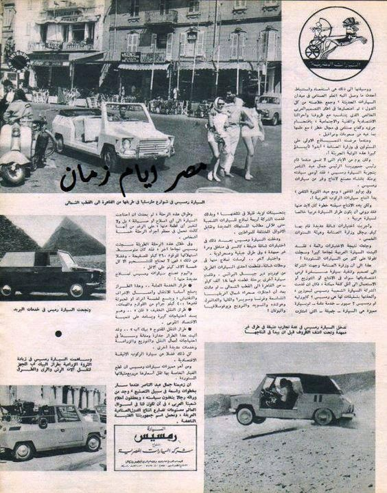 Ramsis cars 1950s